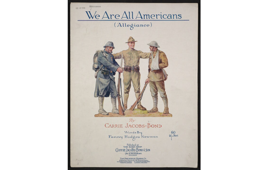 Created as a war song.